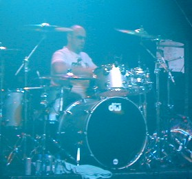 Jason Bonham drummer with UFO at the Astoria, London